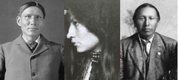 Lakota authors, left to right, Charles Eastman, Gertrude Bonnin and Black Elk.